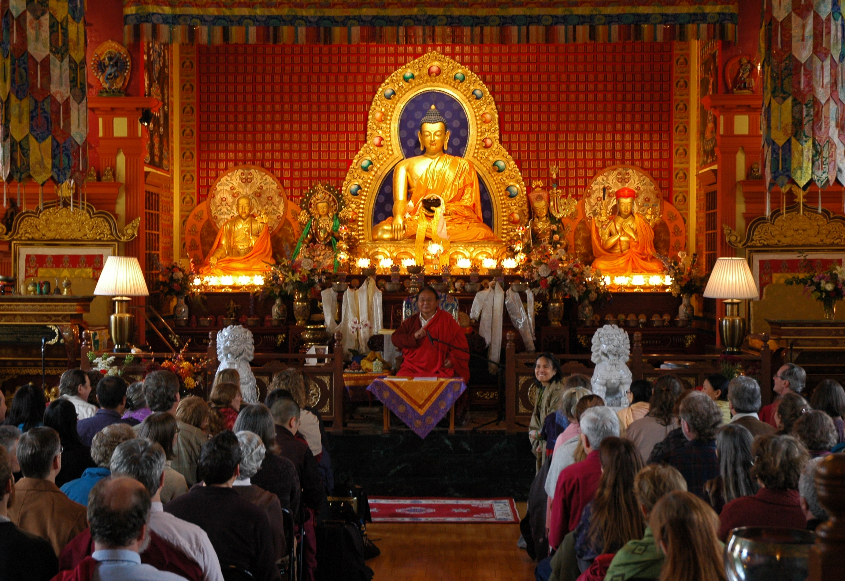 HE Sogyal Rinpoche speaking at Sakya Monastery of Tibetan Buddhism, Seattle, Washington, USA 9286